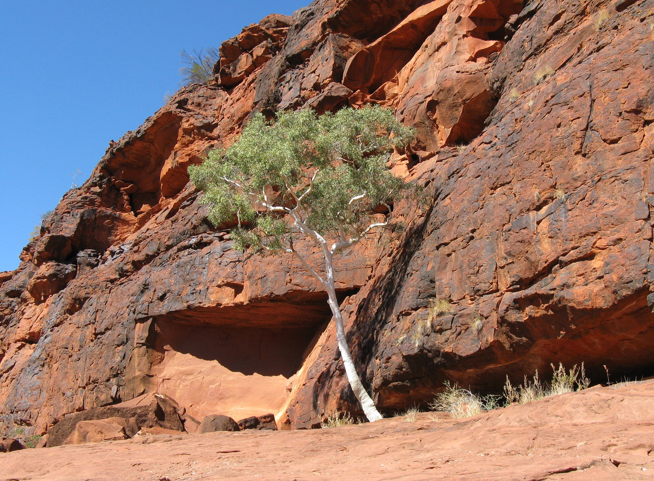 Ghost Gum in Palm Valley, Northern Territory, Australia